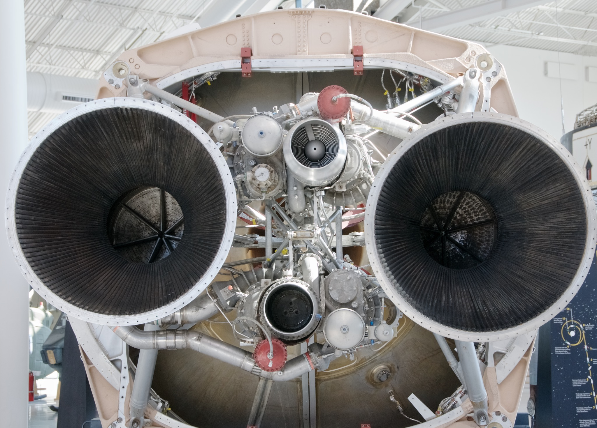 Bottom of First Stage of Titan IVB rocket, showing the two nozzles of the LR87 rocket engine (regarded as a single engine). Seen at the Evergreen Aviation & Space Museum in McMinnville, Oregon.